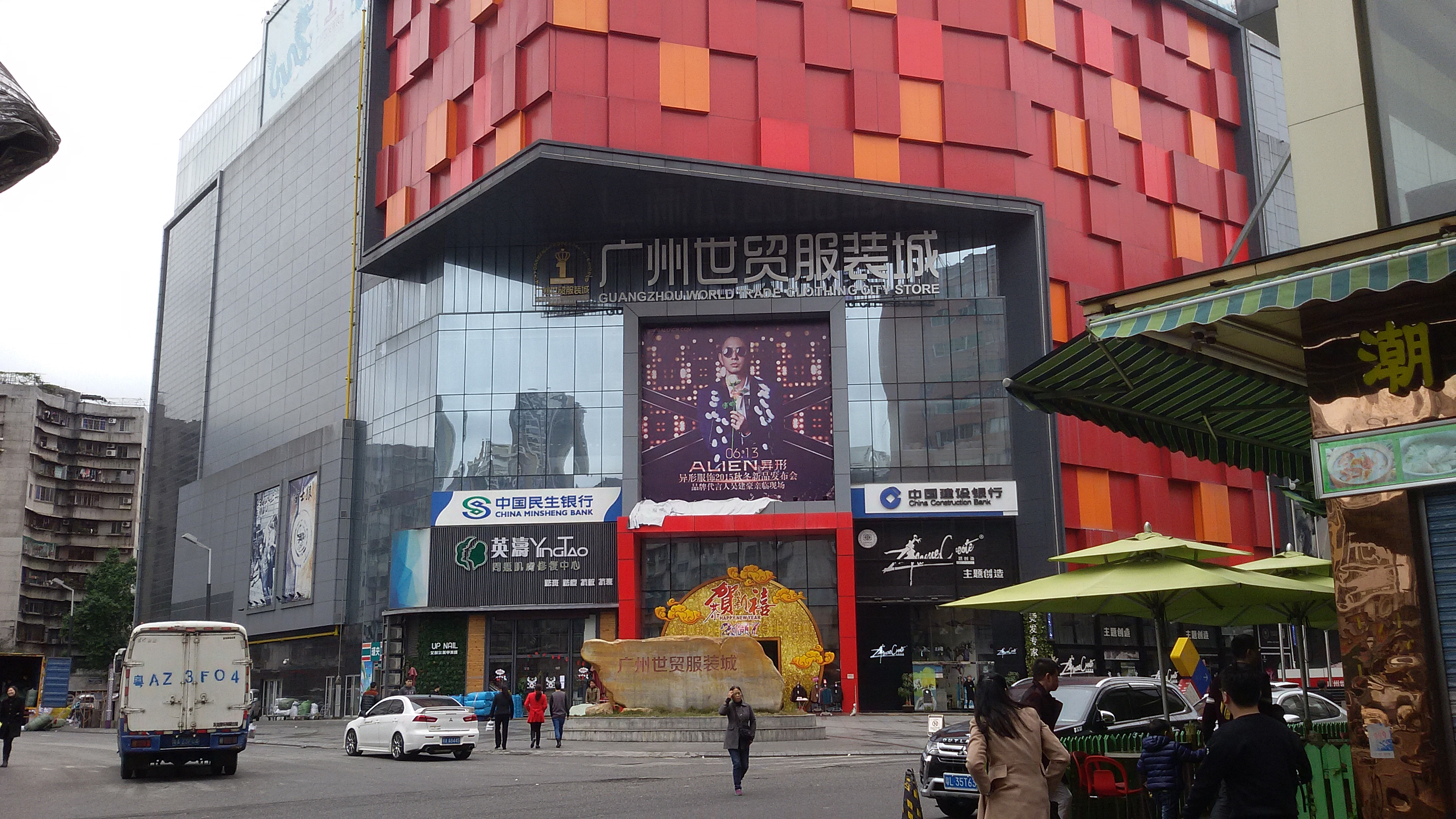 Guangzhou World Trade Clothing City Store